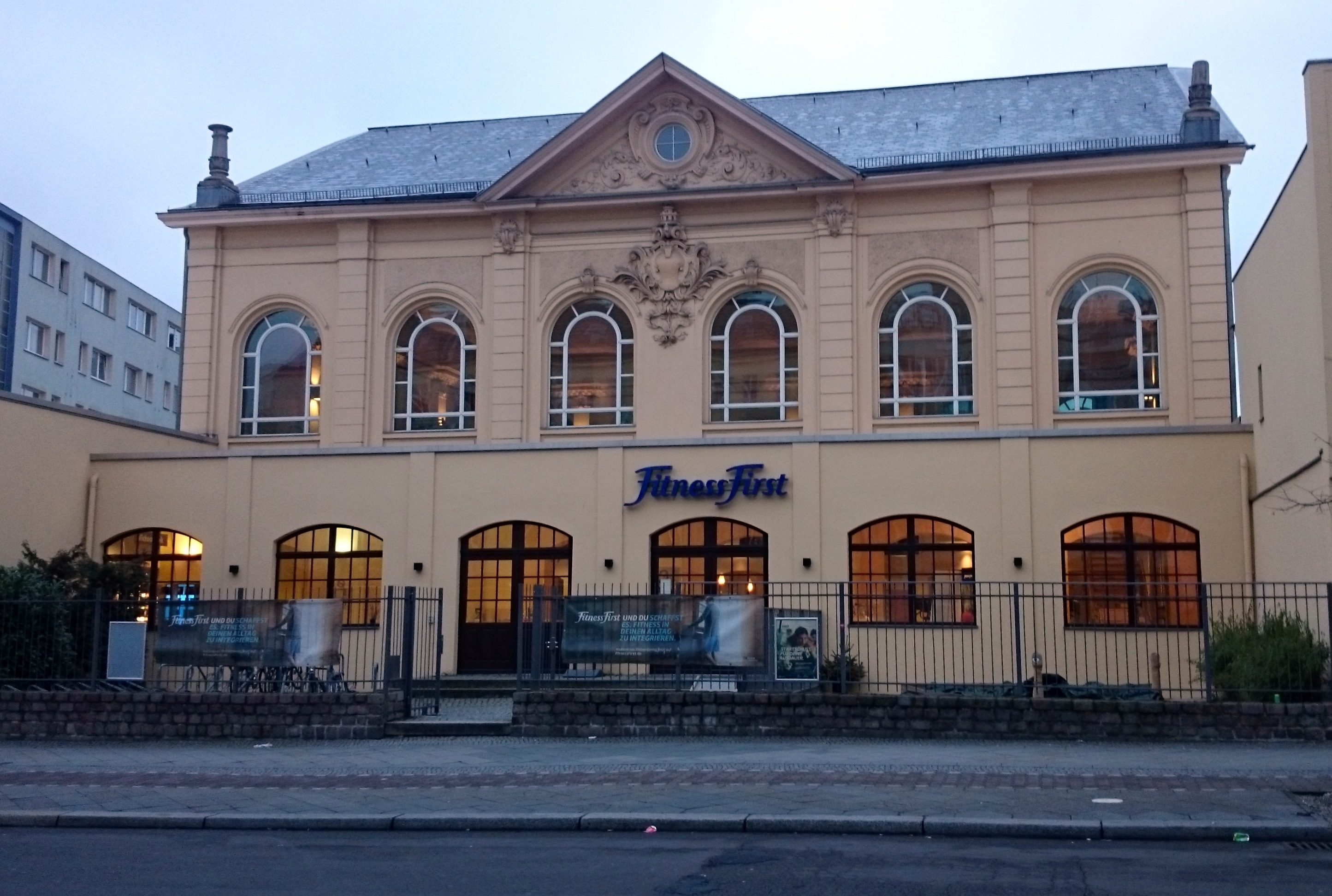 Berlin in spring